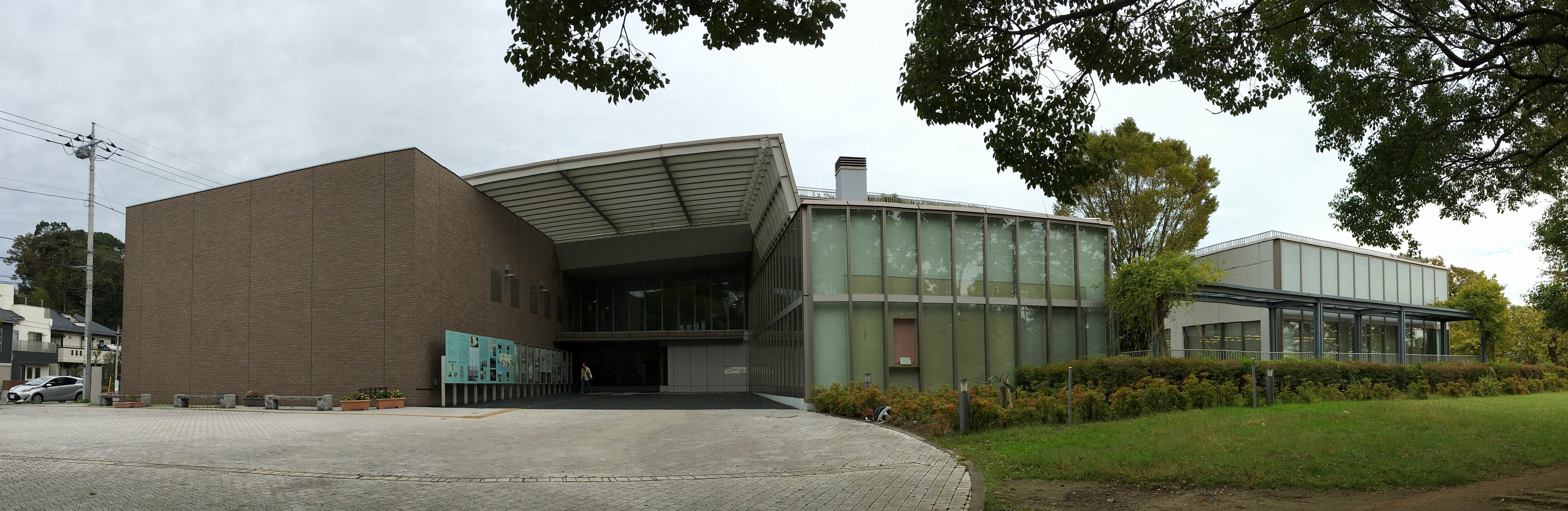 "Abista", Lifelong Learning Center of Abiko city (Chiba prefecture, Japan)